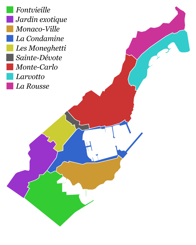 Map of the wards of Monaco. Created by Rarelibra 15:44, 7 February 2008 (UTC) for public domain use, using MapInfo Professional v8.5 and various mapping resources. Color legend added by Gazilion